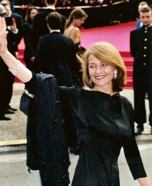 Charlotte Rampling at the Cannes film festival